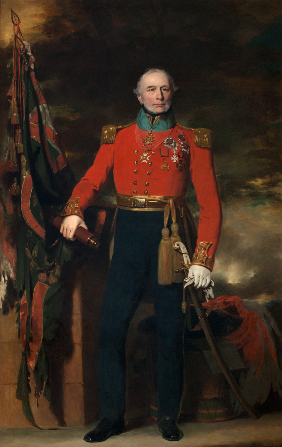 Portrait of General Sir Neil Douglas